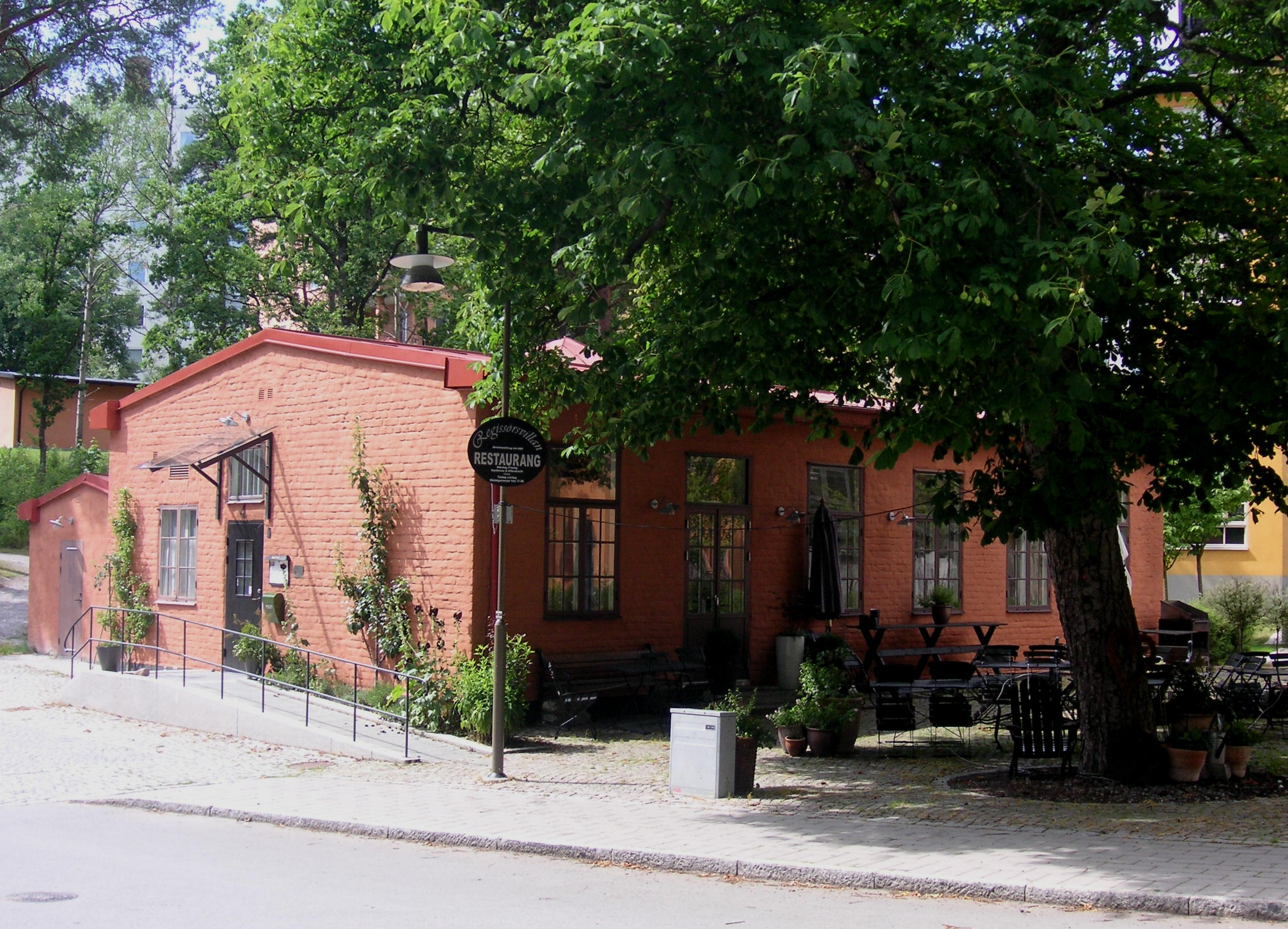 The former Swedish filmstudios "Filmstaden" in Solna